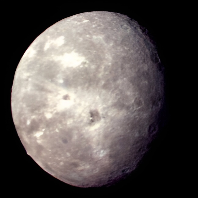 Original Caption Released with Image: This Voyager 2 picture of Oberon is the best the spacecraft acquired of Uranus' outermost moon. The picture was taken shortly after 3:30 a.m. PST on Jan. 24, 1986, from a distance of 660,000 kilometers (410,000 miles). The color was reconstructed from images taken through the narrow-angle camera's violet, clear and green filters. The picture shows features as small as 12 km (7 mi) on the moon's surface. Clearly visible are several large impact craters in Oberon's icy surface surrounded by bright rays similar to those seen on Jupiter's moon Callisto. Quite prominent near the center of Oberon's disk is a large crater with a bright central peak and a floor partially covered with very dark material. This may be icy, carbon-rich material erupted onto the crater floor sometime after the crater formed. Another striking topographic feature is a large mountain, about 6 km (4 mi) high, peeking out on the lower left limb. The Voyager project is managed for NASA by the Jet Propulsion Laboratory.